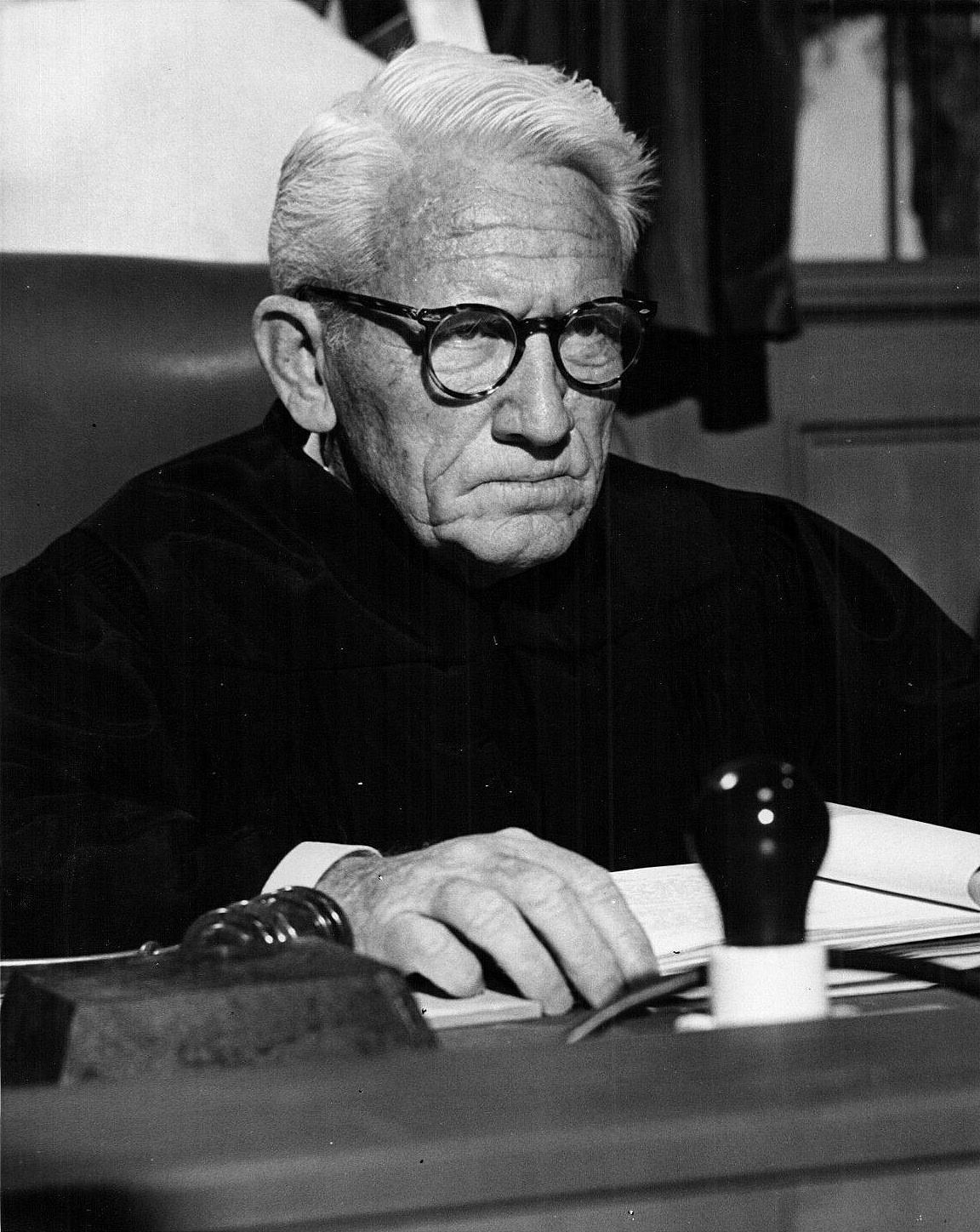 Spencer Tracy in American courtroom drama film Judgment at Nuremberg (1961). See also film still. No copyright notice.